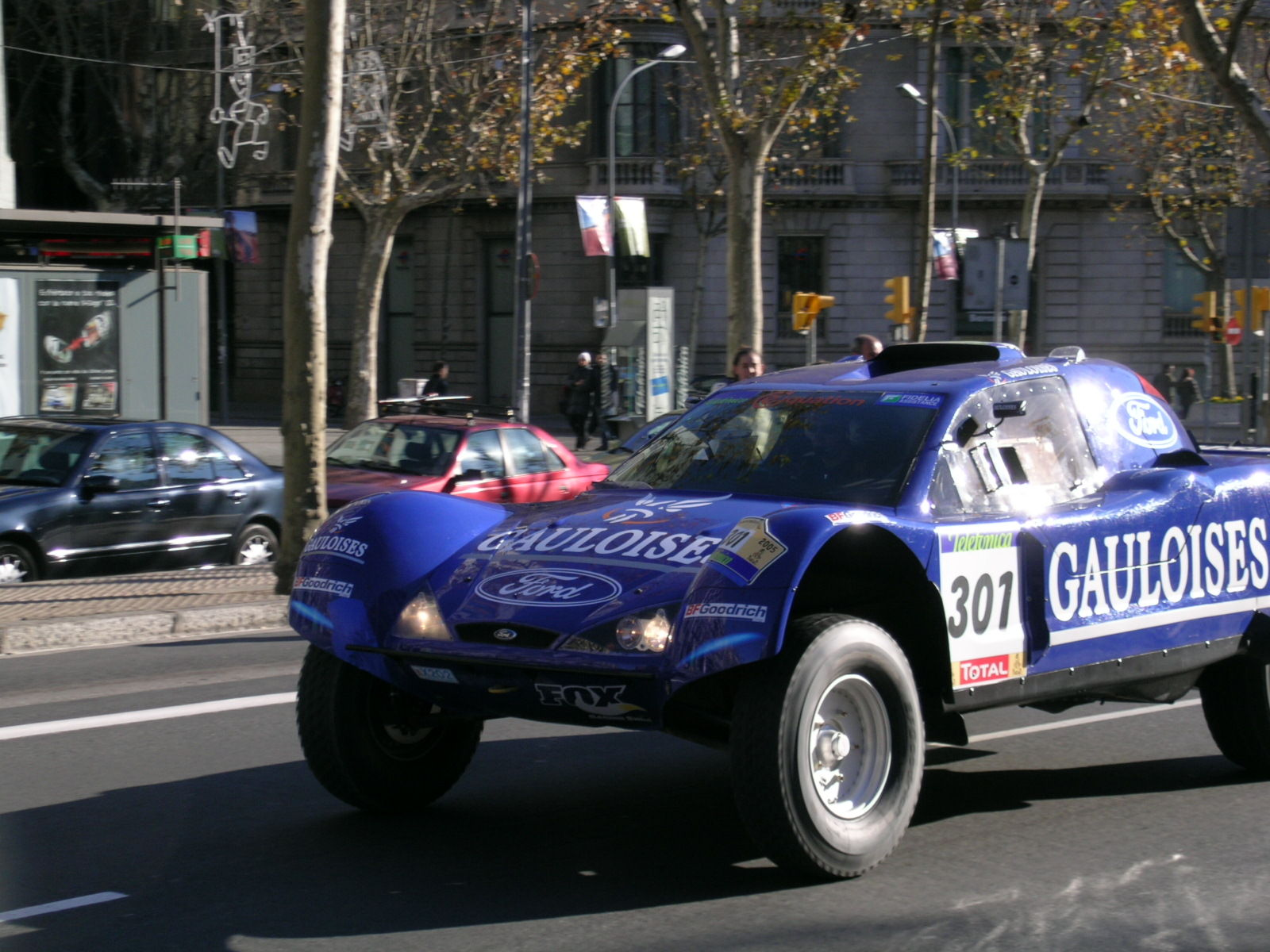 Schlesser Buggy / Driver: J.M. Servia / Year: 2005